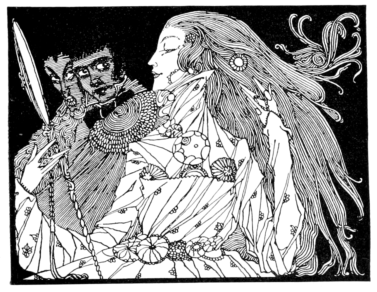 Illustration in The fairy tales of Charles Perrault Perrault, Charles, 1628-1703; Clarke, Harry, 1889-1931, illustrator. London: Harrap (1922)